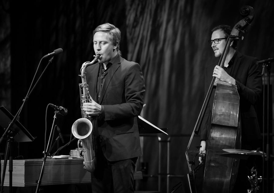 Håkon Kornstad performs "Håkon Kornstad Tenor Battle" at the stage of Sentralen. The concert was part of the Oslo Jazz Festival in Norway and took place on 19. August 2016. Lineup:Håkon Kornstad (saxophone)Sigbjørn Apeland (harmonium)Lars Henrik Johansen (harpsichord)Per Zanussi (double bass)Øyvind Skarbø (drums)